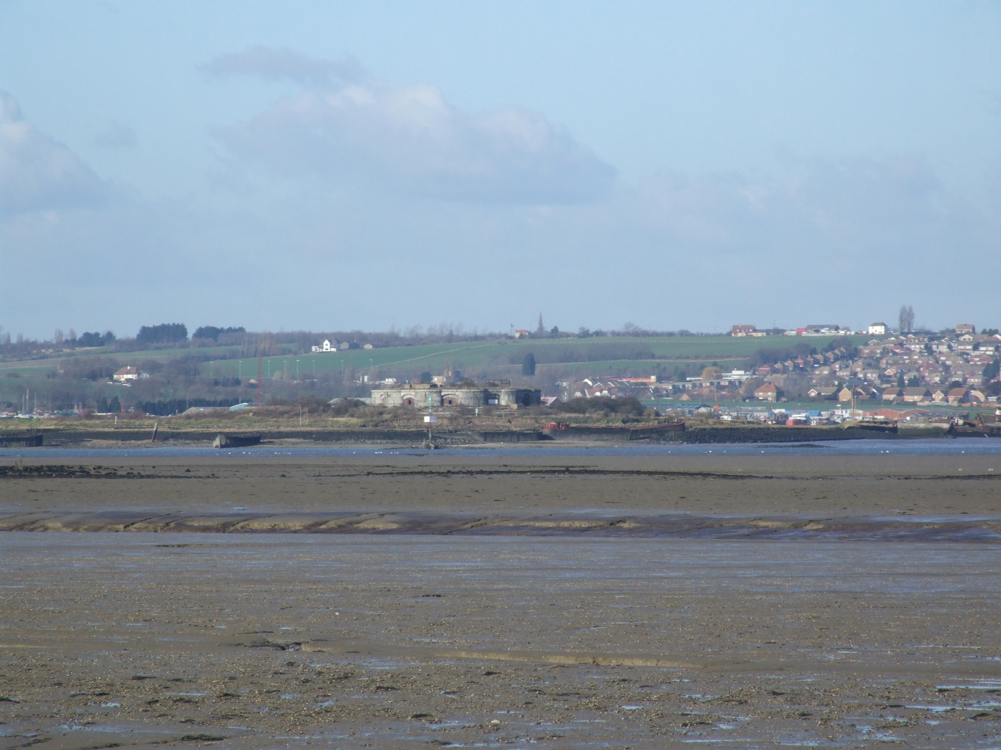 Hoo Fort on the Hoo salt marsh in the Medway estuary in Kent, United Kingdom. It was one of the Palmerston forts, forming the outer ring of defences for Chatham Dockyard. Behind we can see Hoo St Werburgh. - Google Maps - Google Earth